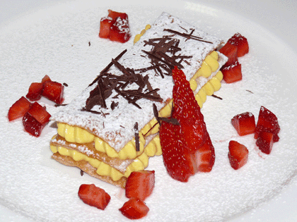 Millefoglie cake from Italy, with Strawberries and Chantilly Cream